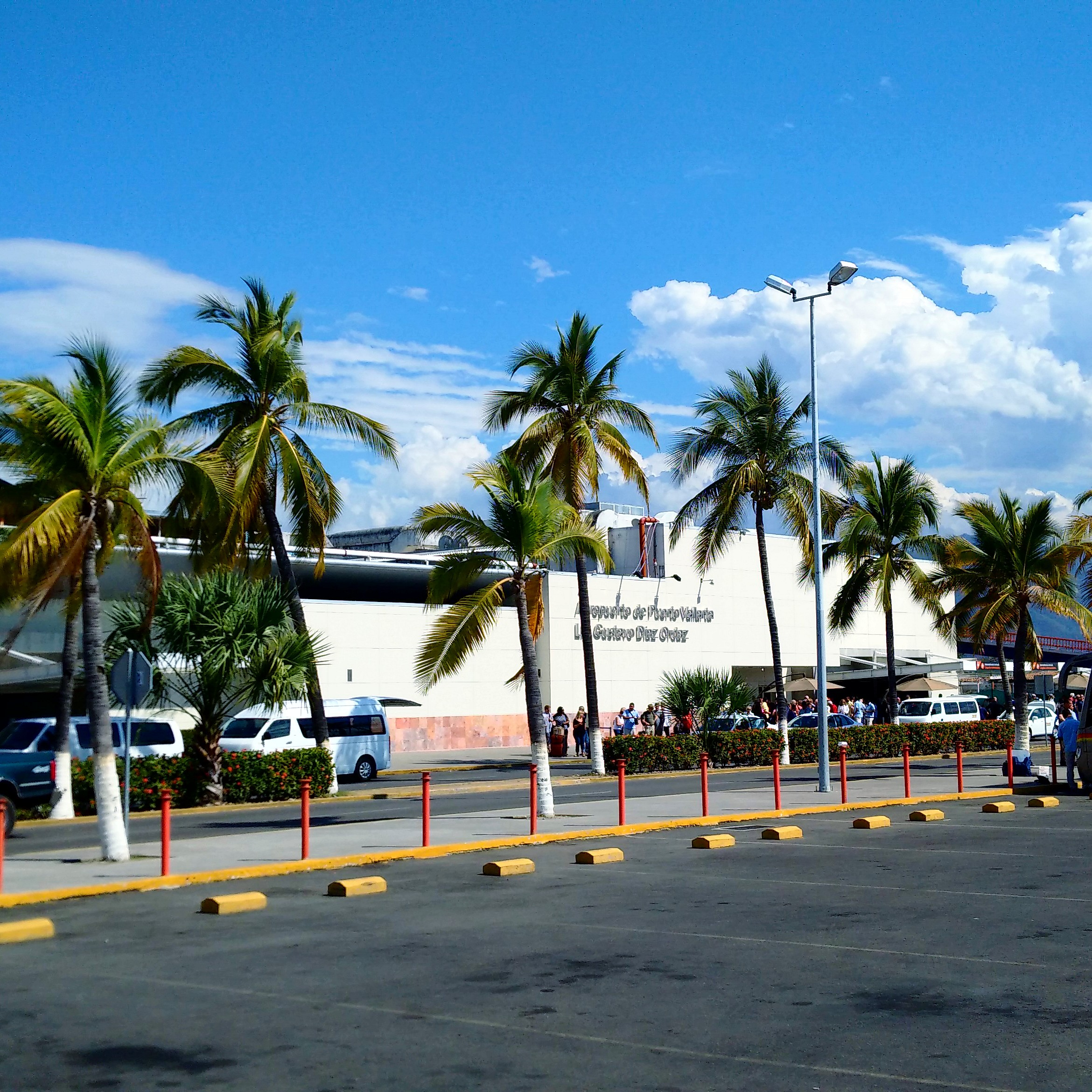 Licenciado Gustavo Díaz Ordaz International Airport in Puerto Vallarta (exterior in 2015).